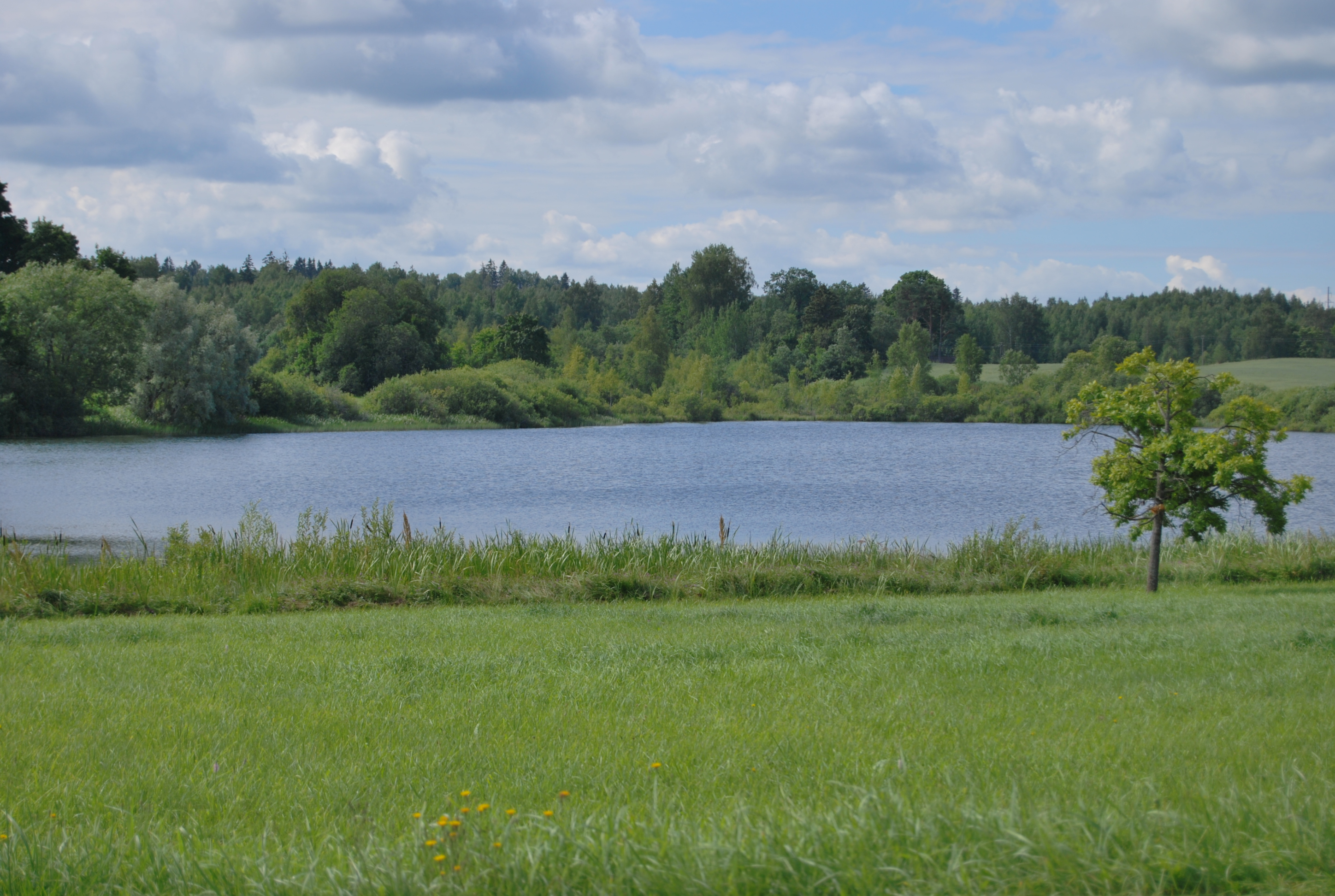 Lake Holstre, located in Viljandi district, Estonia.